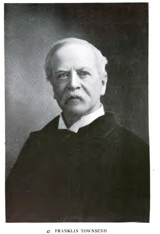 Photograph of Franklin Townsend (1821 - 1898), industrialist, Mayor of Albany New York from 1850 to 1851, Adjuant General of the State of New York from 1869-1873.